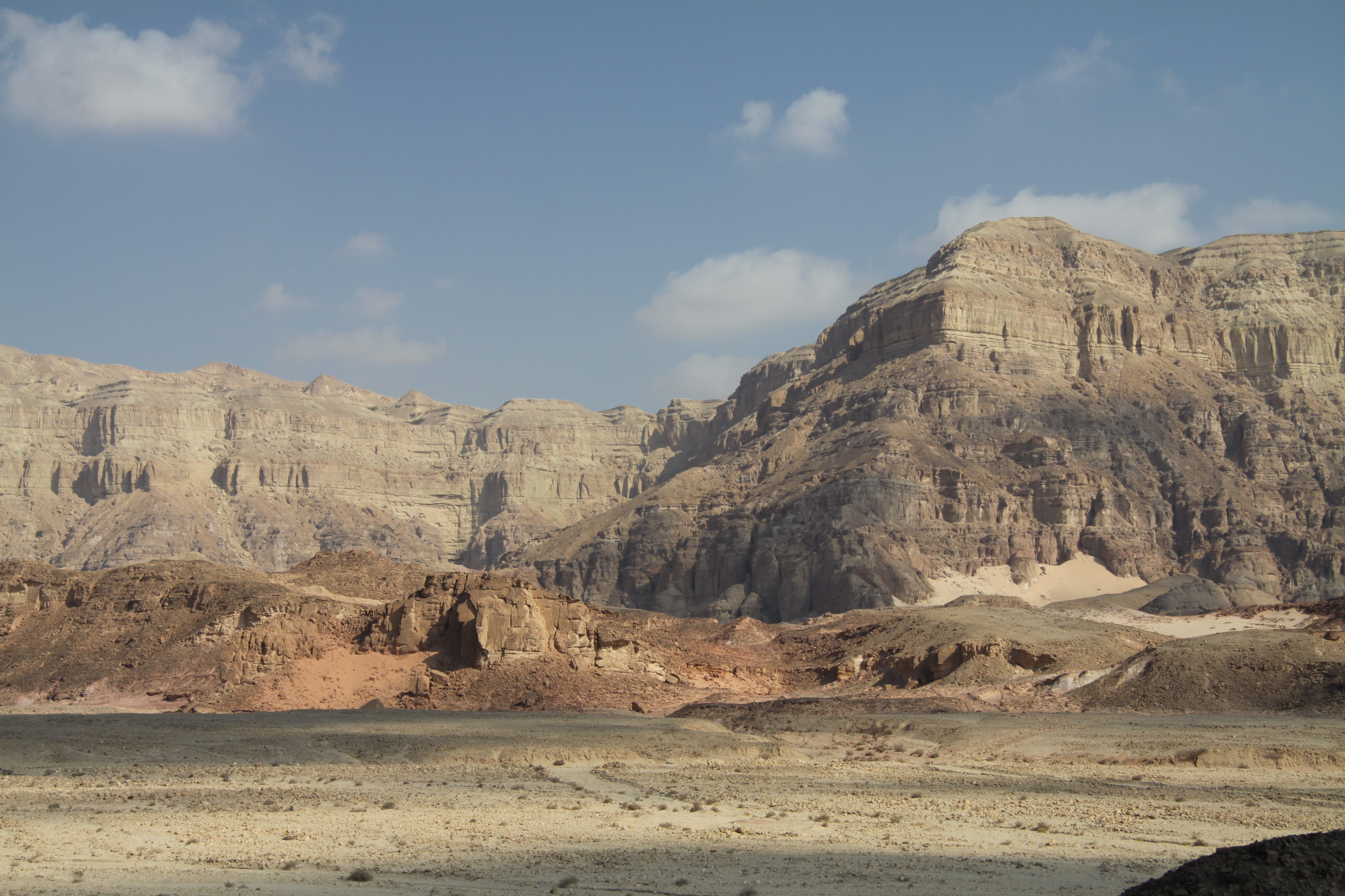 Landscape in Timna Park, Southern Israel